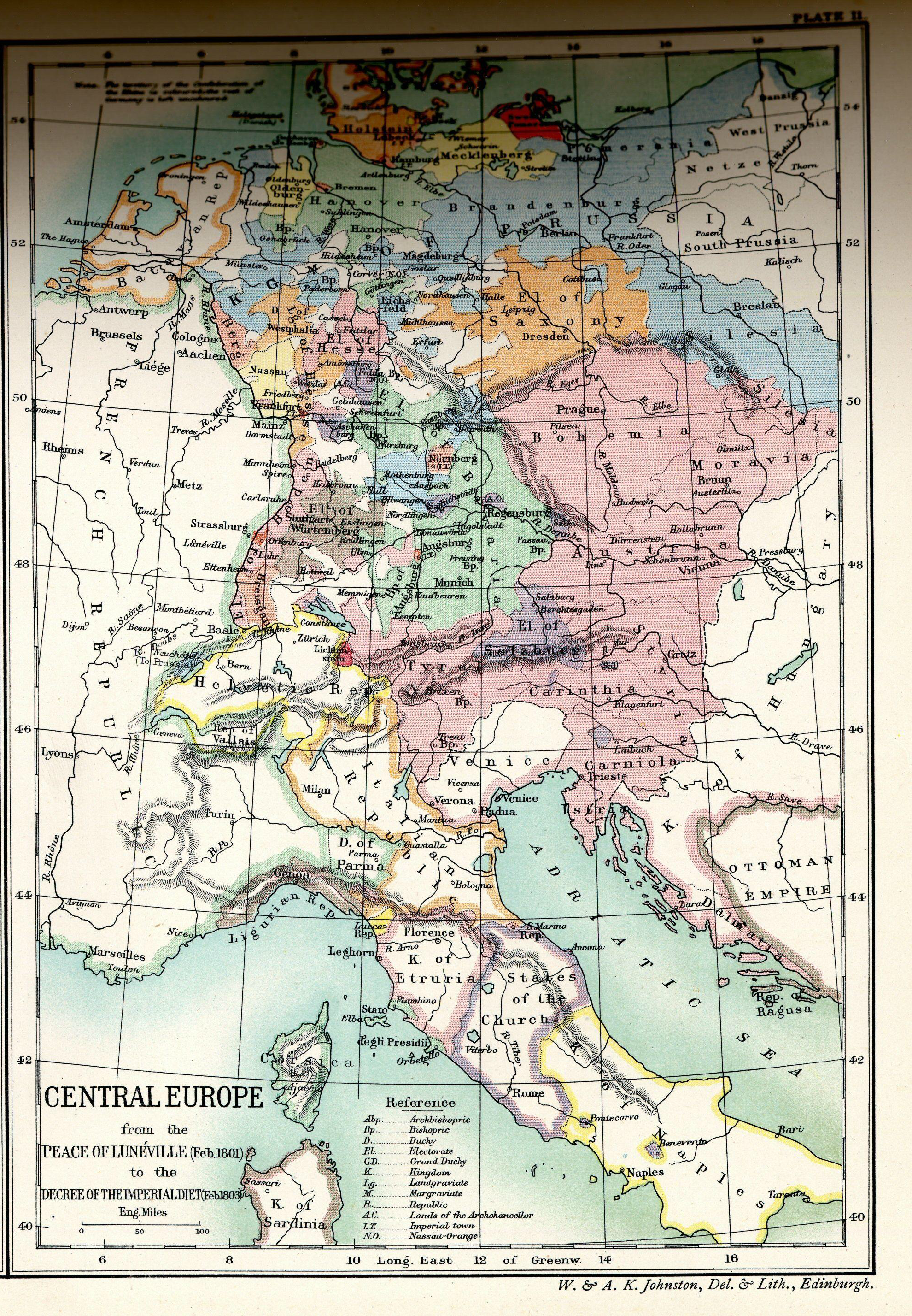 "Central Europe from the Peace of Lunéville (Feb. 1801) to the Decree of the Imperial Diet (Feb. 1803)", the right map from Plate 11 in the Historical Atlas of Modern Europe. Reference Abp. ......... ArchbishopricBp. ......... BishopricD. ......... DuchyEl. ......... ElectorateG.D. ......... Grand DuchyK. ......... KingdomLg. ......... LandgraviateM. ......... MargraviateR. ......... RepublicA.C. ......... Lands of the ArchchancellorI.T. ......... Imperial townN.O. ......... Nassau-Orange